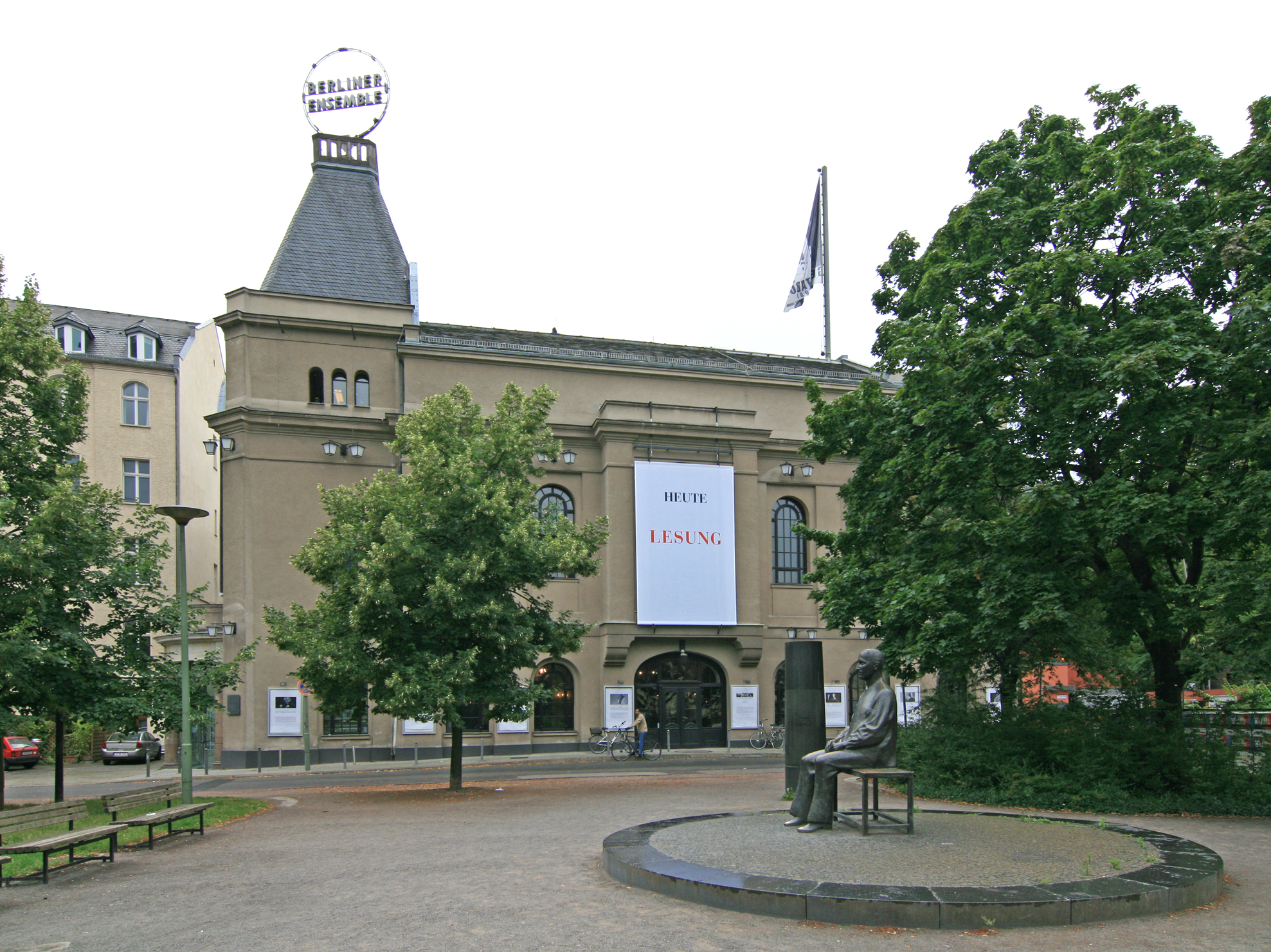 Theater am Schiffbauerdamm, Berlin.